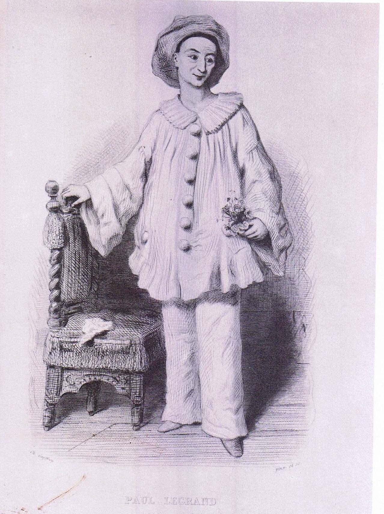 Lithograph of actor Paul Legrand as Pierrot.